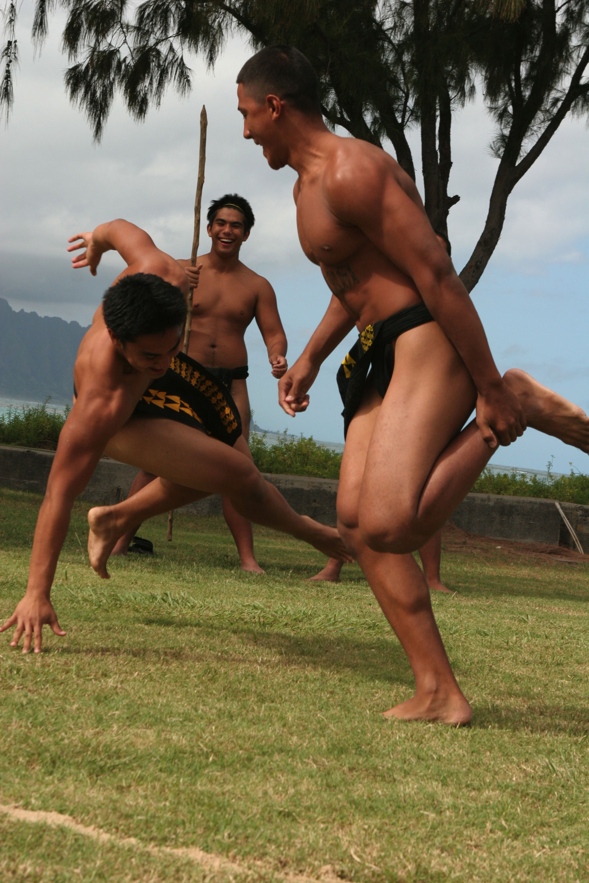 An opponent is thrown off his feet, losing the match. In this variation of wrestling, opponents are allowed the use of only one leg as they hold the other while trying to throw each other off balance. Hawaiian wrestling matches were held during the Makahiki opening ceremonies at Hale Koa Beach. The various matches pitted young men against one another in feats of strength and quickness. Other games played included an ancient version of bowling and the ever-popular spear-throwing competitions.